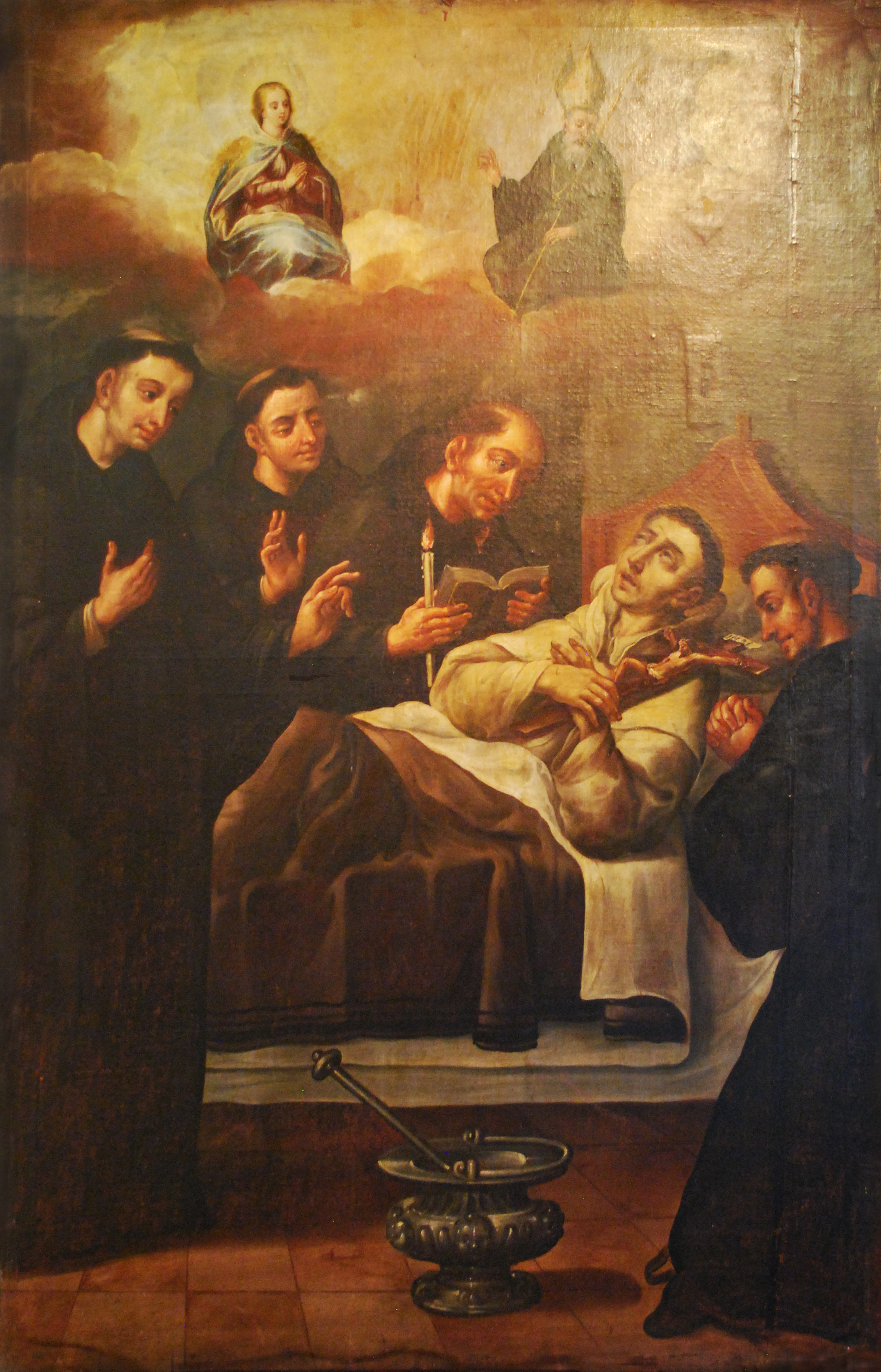 "Death of Salvador of Horta" by unknown author from 18th century on display at the Viceregal Museum in Zinacantepec, Mexico State